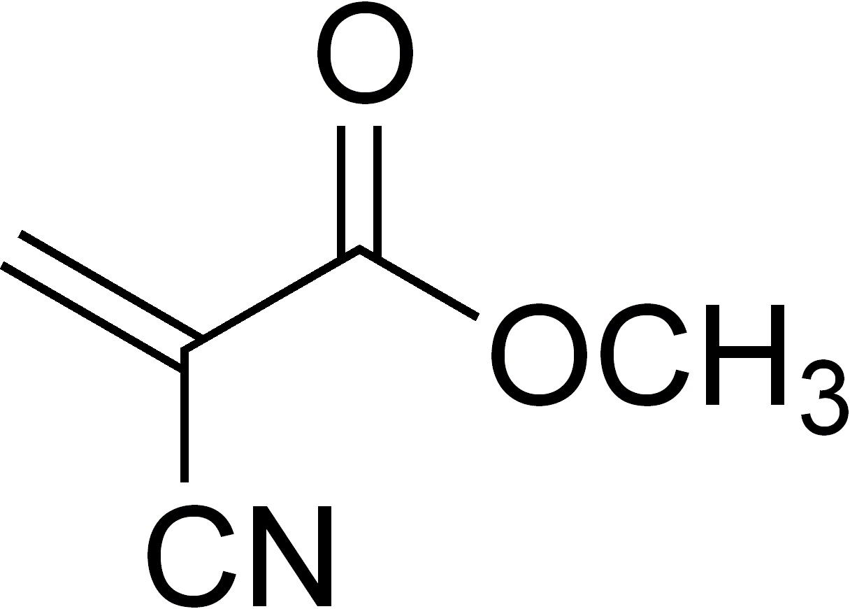 Chemical structure of methyl 2-cyanoacrylate